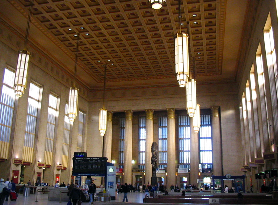 Inside Philadelphia's 30th Street Station, facing the 29th Street entrance